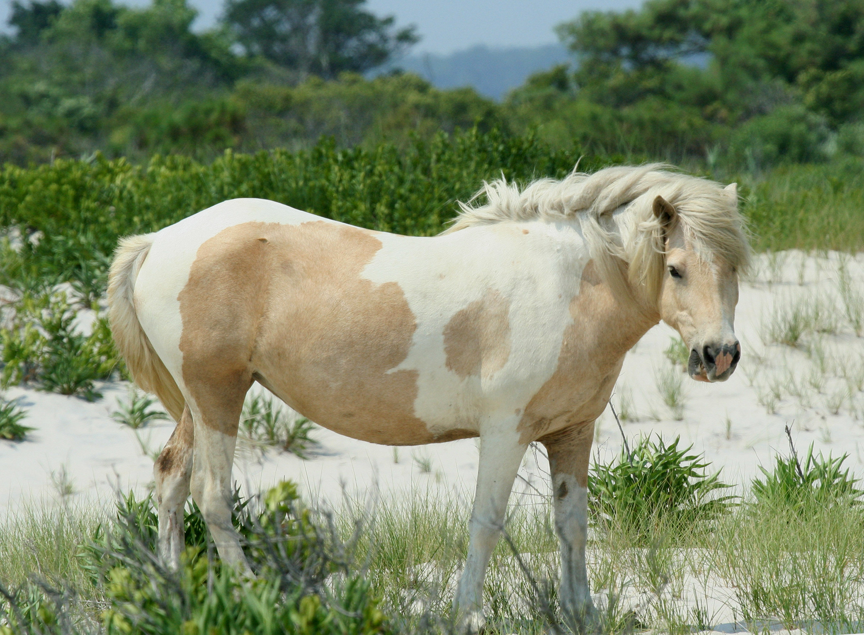 Wild Pony at Assateague Island National Seashore, MD